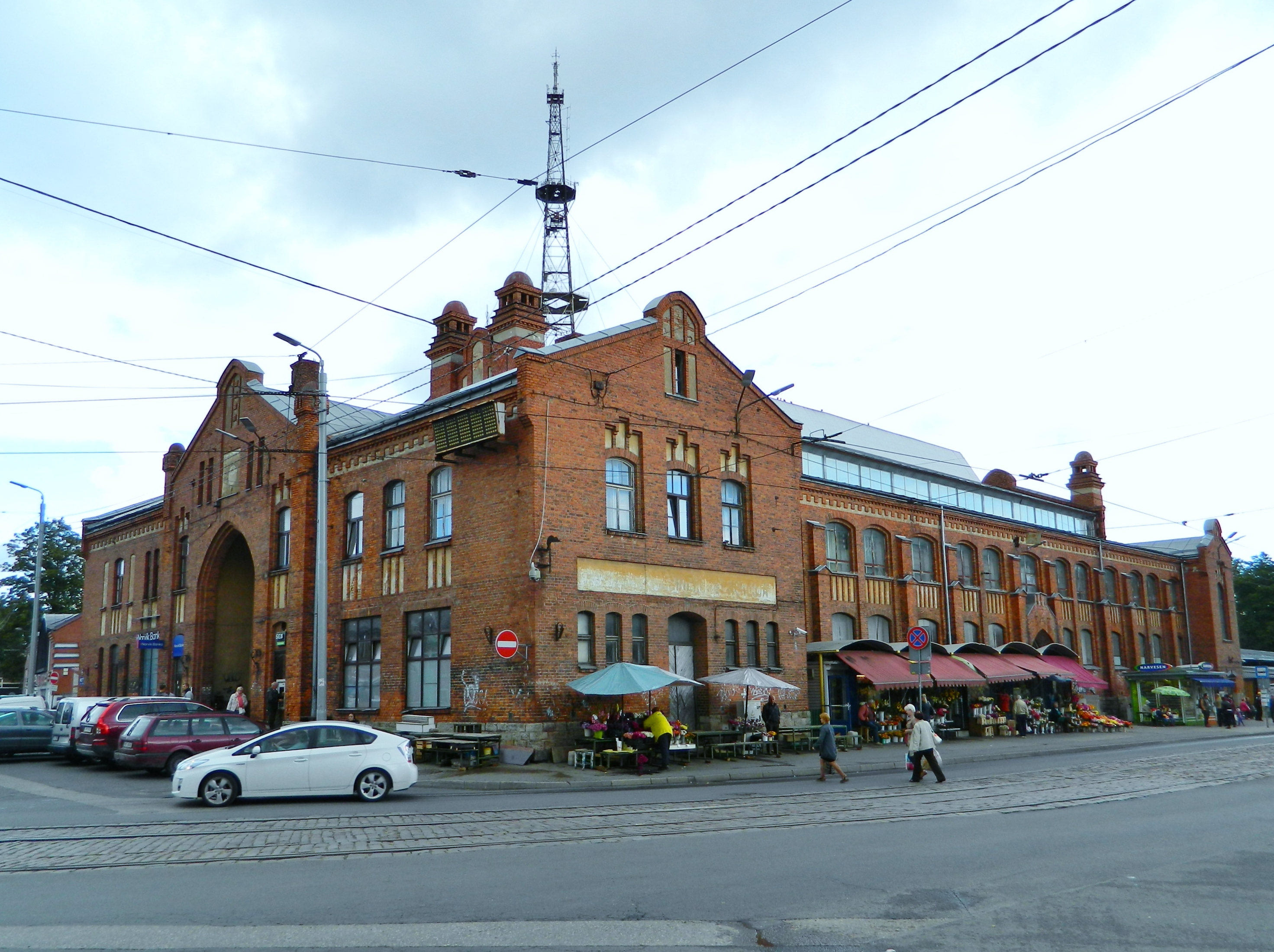 Āgenskalns market, Rīga, Nometņu iela 64